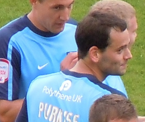 Ben Purkiss. Image cropped from original at flickr.